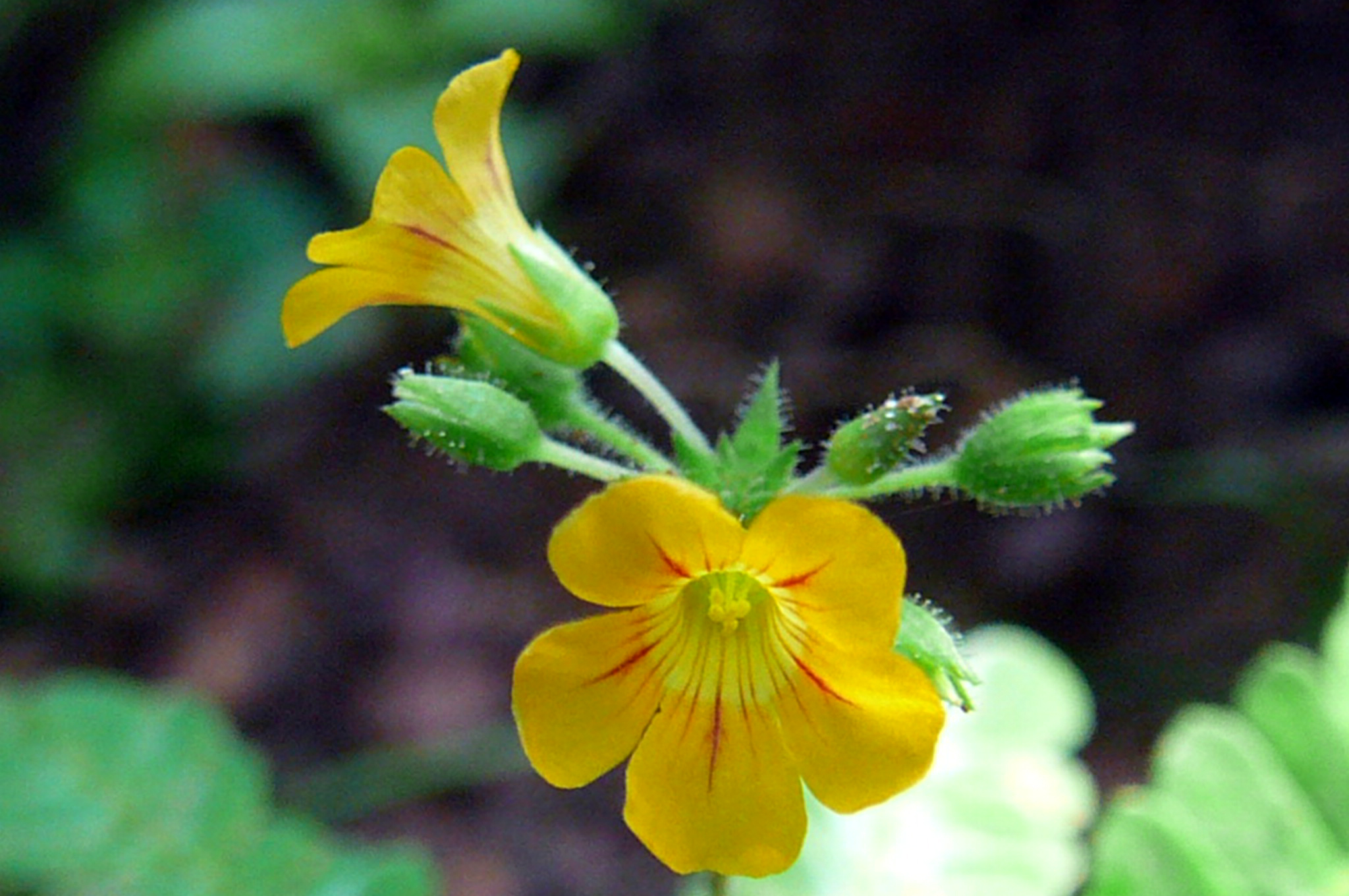 Mukkutti Flower